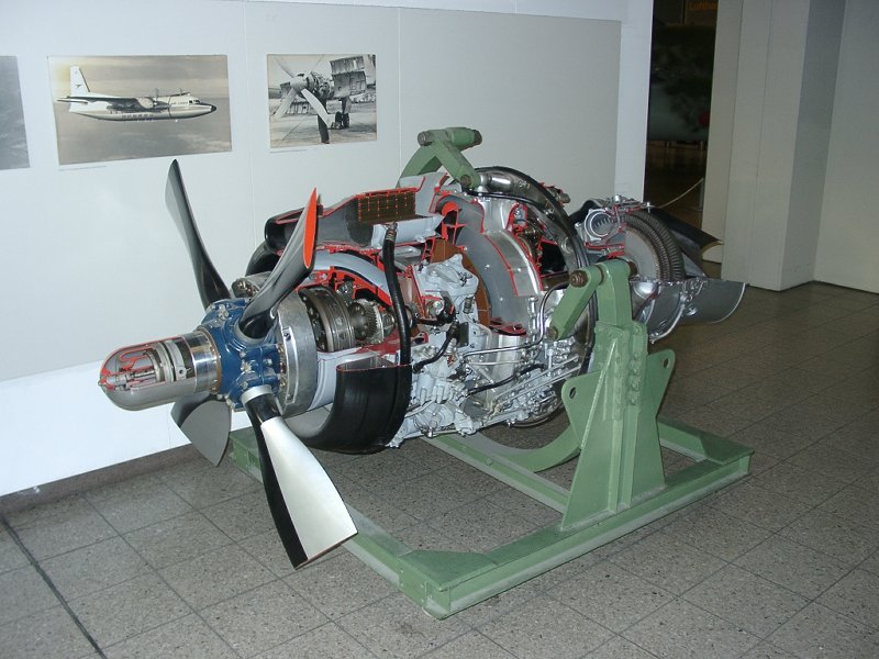 A museum cutaway Rolls-Royce Dart 506.